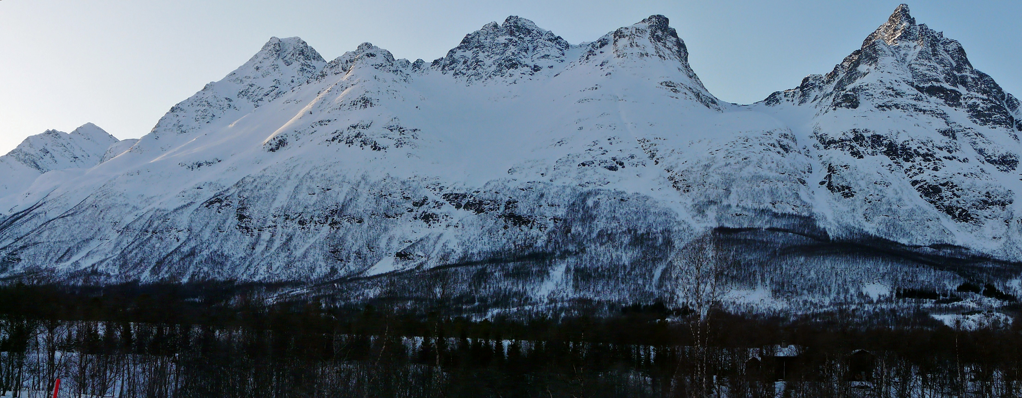 Summits on the west side of Lakselvdalen in 2009 February. Rasmustinden (1,224 m, far left), Skulvatindane (highest of them, 1,062 m, at the center of the picture) and Piggtinden or Lille Piggtinden (1,032 m, far right).